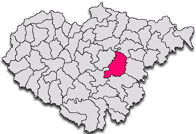 Map of Salaj County